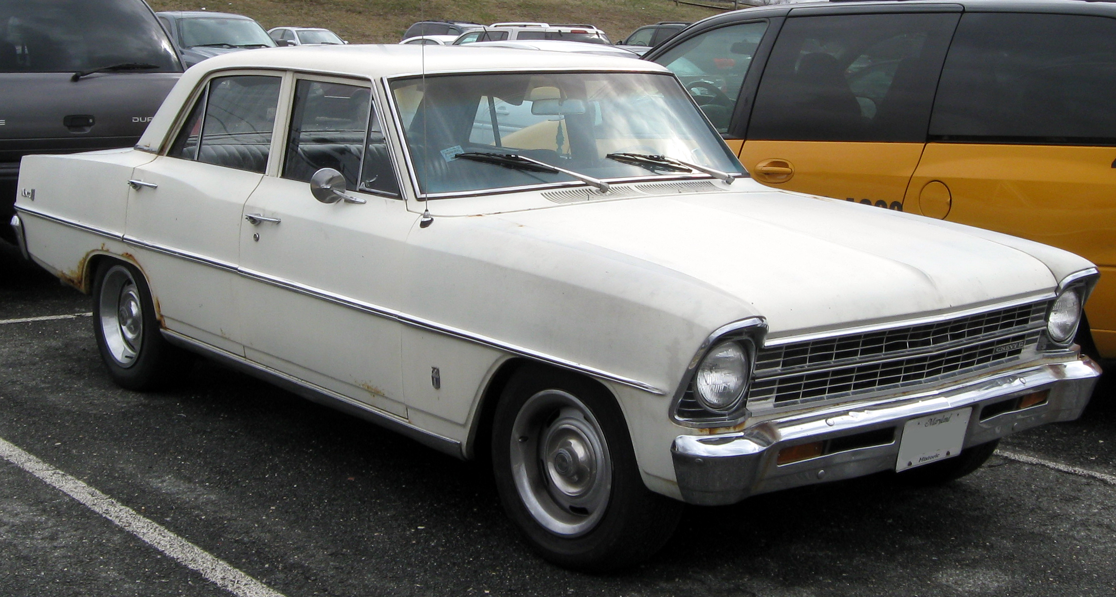 Chevrolet Nova photographed in Upper Marlboro, Maryland, USA.